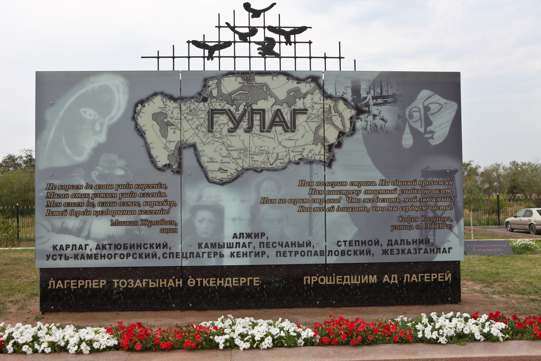 Monument to the victims of the Akmola Labour Camp for Wives of Political Dissidents during Soviet times, Astana, Kazakhstan